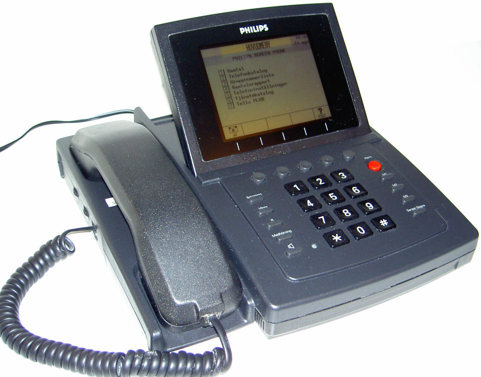 Picture of PHILIPS P100 Screen Phone